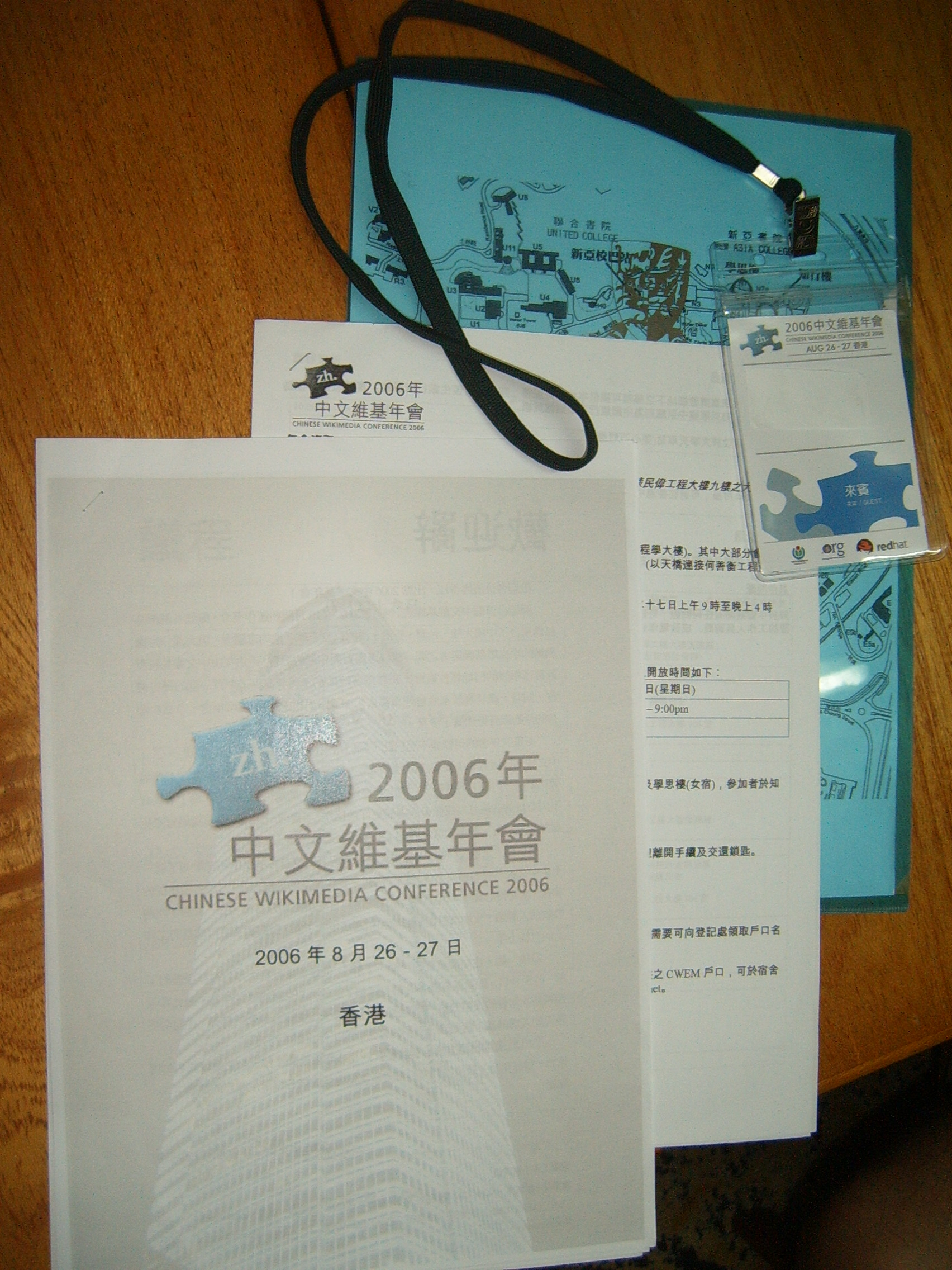 Chinese Wikimedia Conference 2006 documents, 26 August 2006